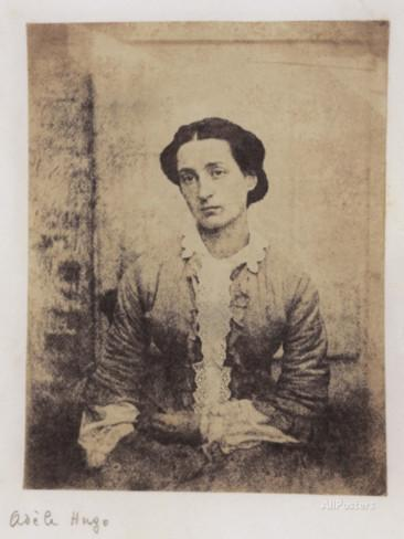 Photograph of Adèle Hugo (1830-1915)